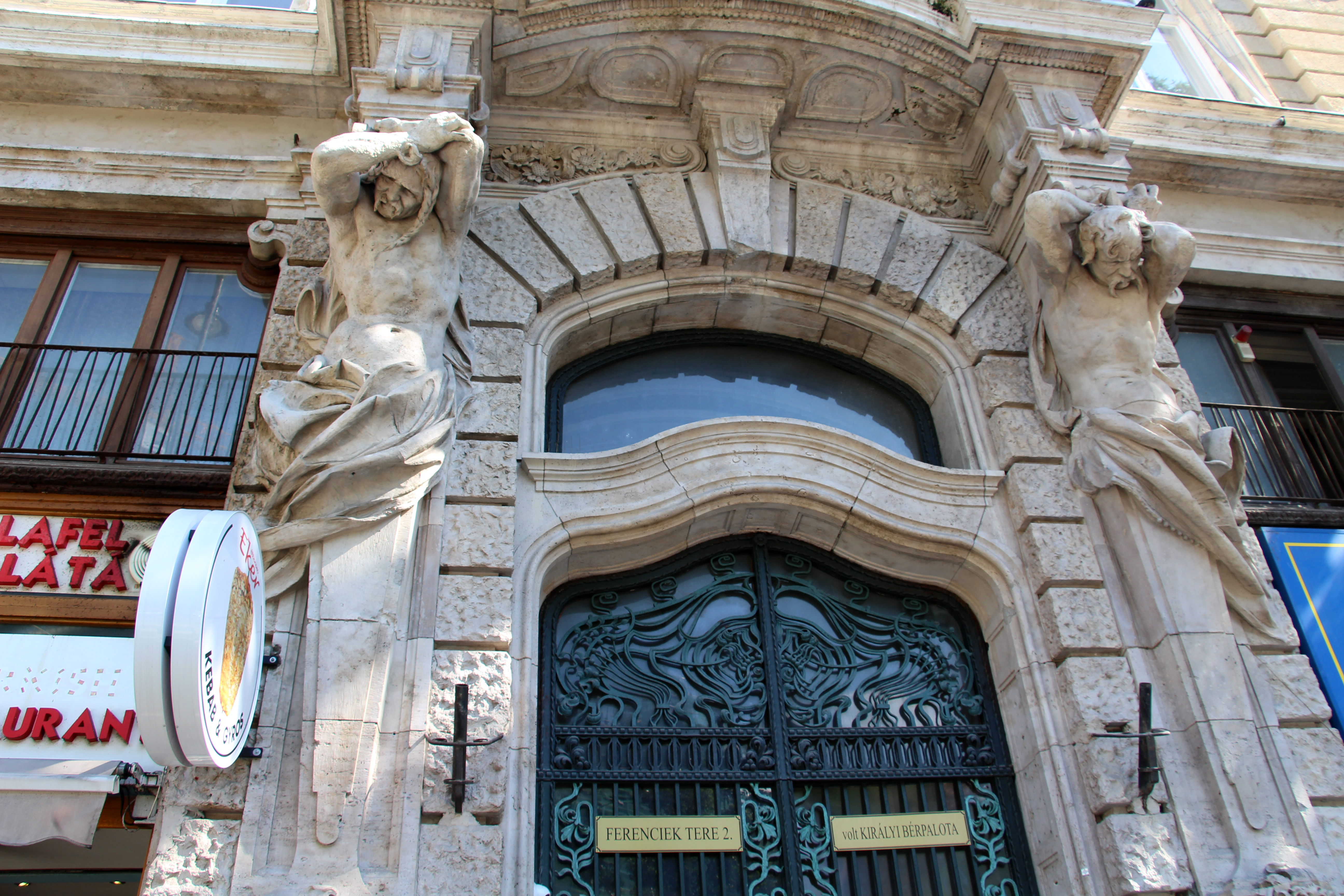 Belváros - Ferenciek tere Royal apartment building. Hungarian secession. Arch. Flóris Korb and Kálmán Giergl 1902